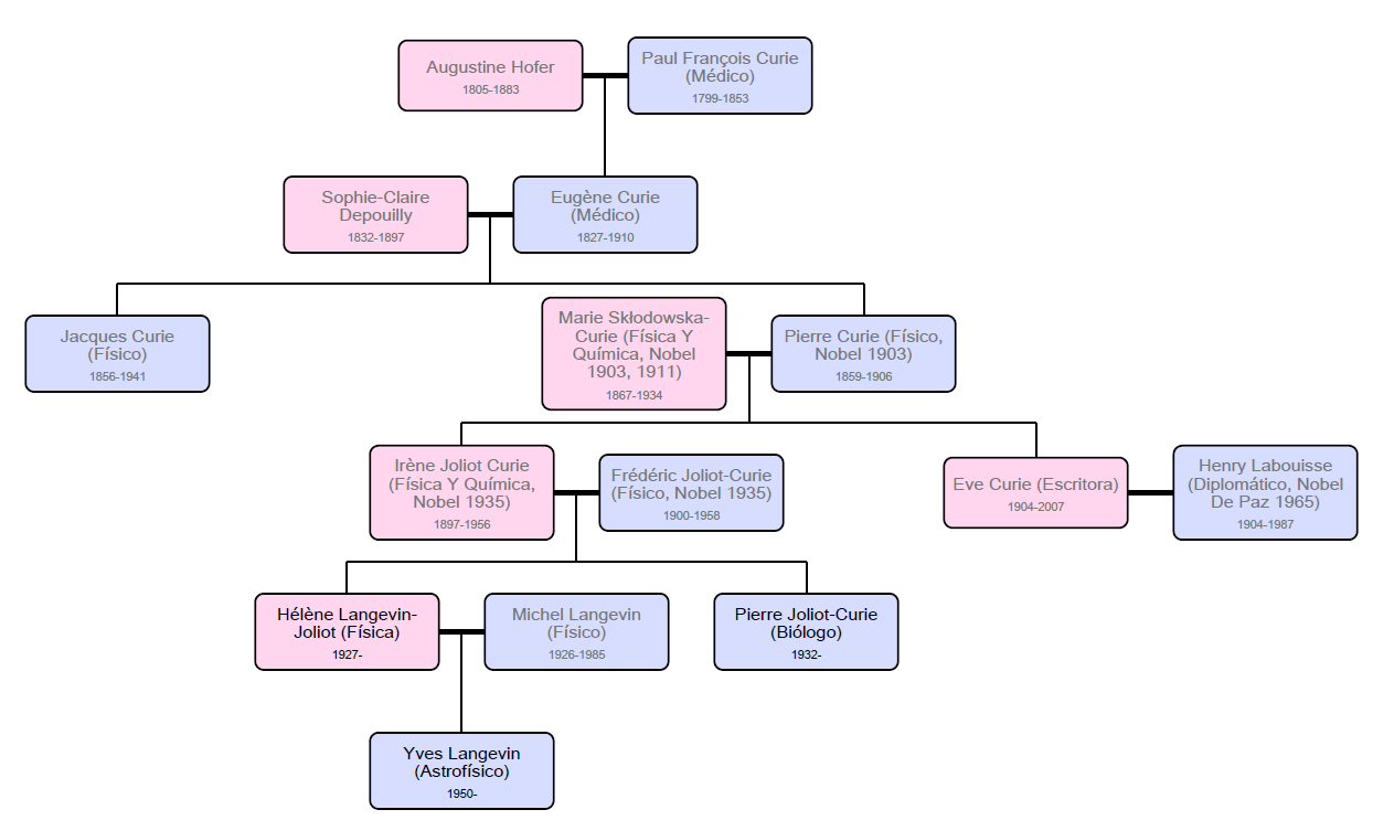 Curie´s family tree. Womens in pink color and Mens in blue color